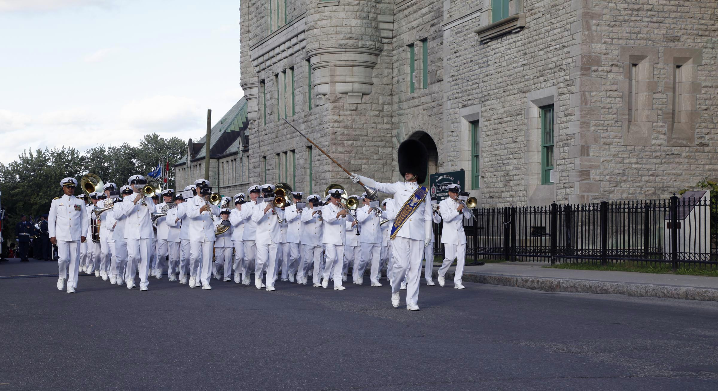 QUEBEC (Aug. 26, 2009) Members of the U.S. Navy Band, led by drum major Master Chief Musician Joe D. Brown, marches on to the parade grounds in front of the Manege Militaire de Quebec as part of the opening ceremony of the Quebec Music Festival. The Navy Band traveled to Quebec City, Quebec to participate in the 10th annual Quebec City International Festival of Military Bands. (U.S. Navy photo by Senior Chief Musician Aaron Porter/Released)